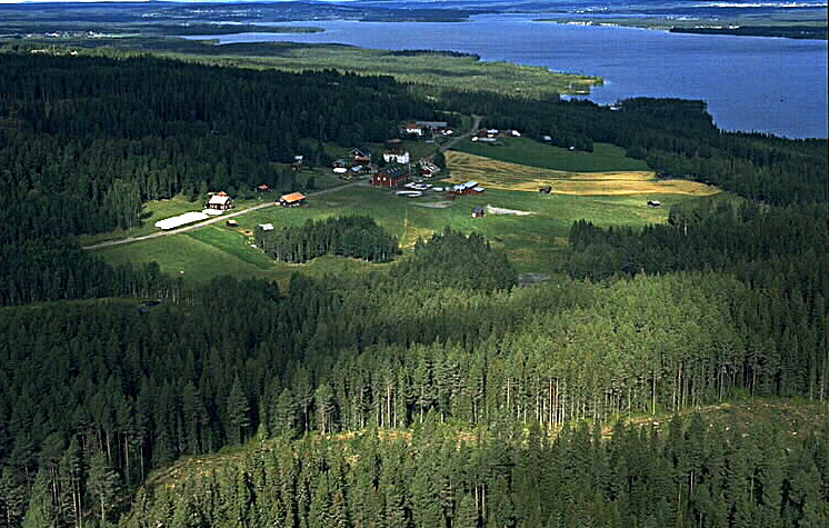 Berge och Locknesjön in Östersund municipality, Jämtland county, Sweden